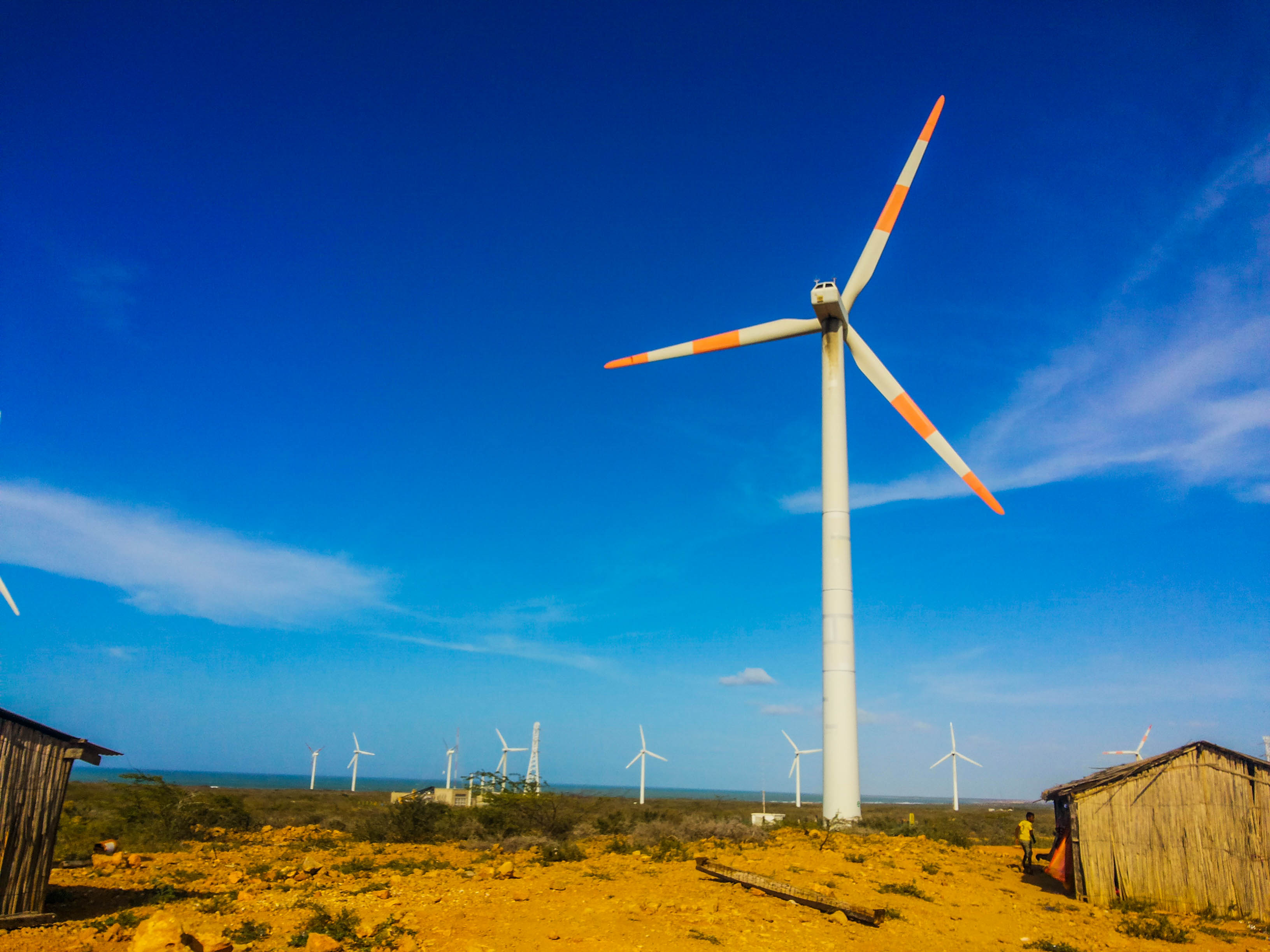 Windmills and Wayuu reed huts at National park natural Macuira, La Guajira, Colombia